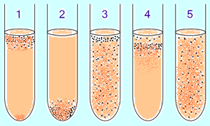 Anaerobic and aerobic microorganism can be identified by growing them in liquid culture